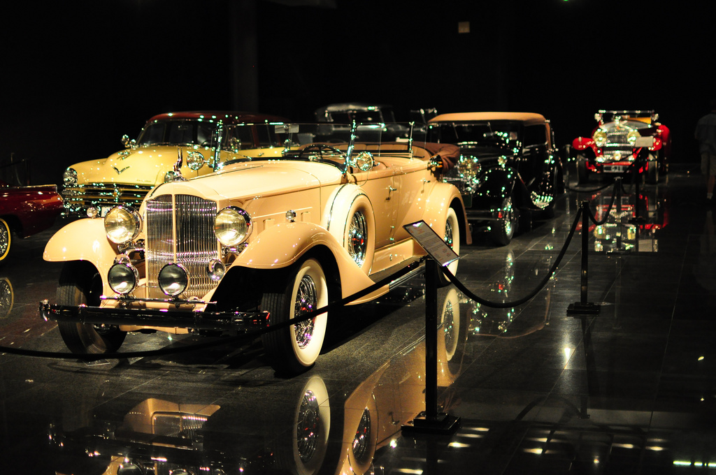 1933 (10th series) Packard Individual Custom Twelve Model 1005; Dietrich Sport Phaeton at Blackhawk Collection